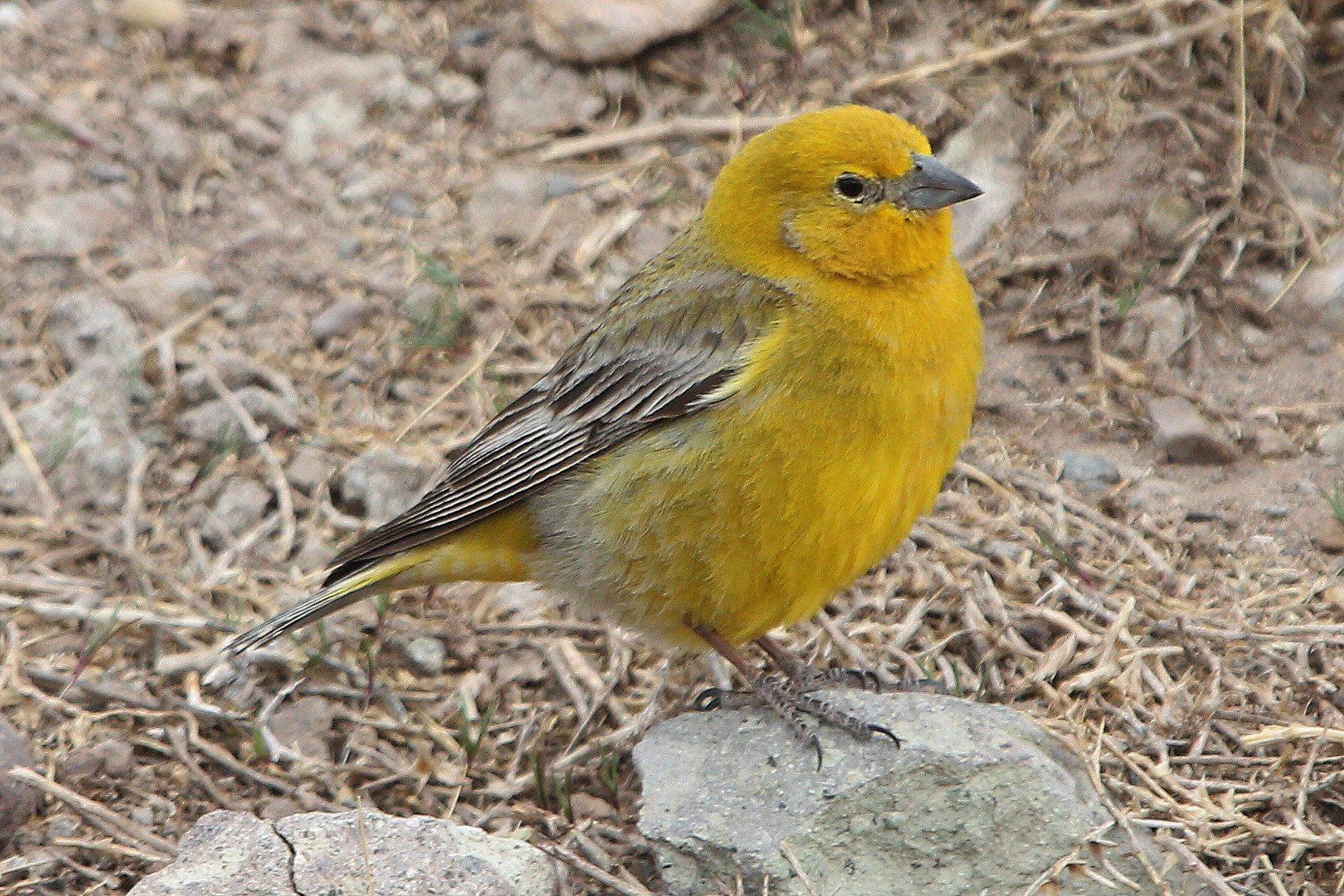 Sicalis auriventris (Greater Yellow Finch), Aconcagua National Park, Argentina